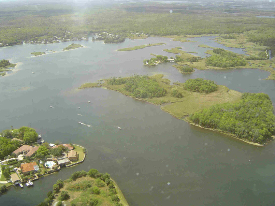 A view across beautiful Kings Bay which is the heart and soul of Crystal River